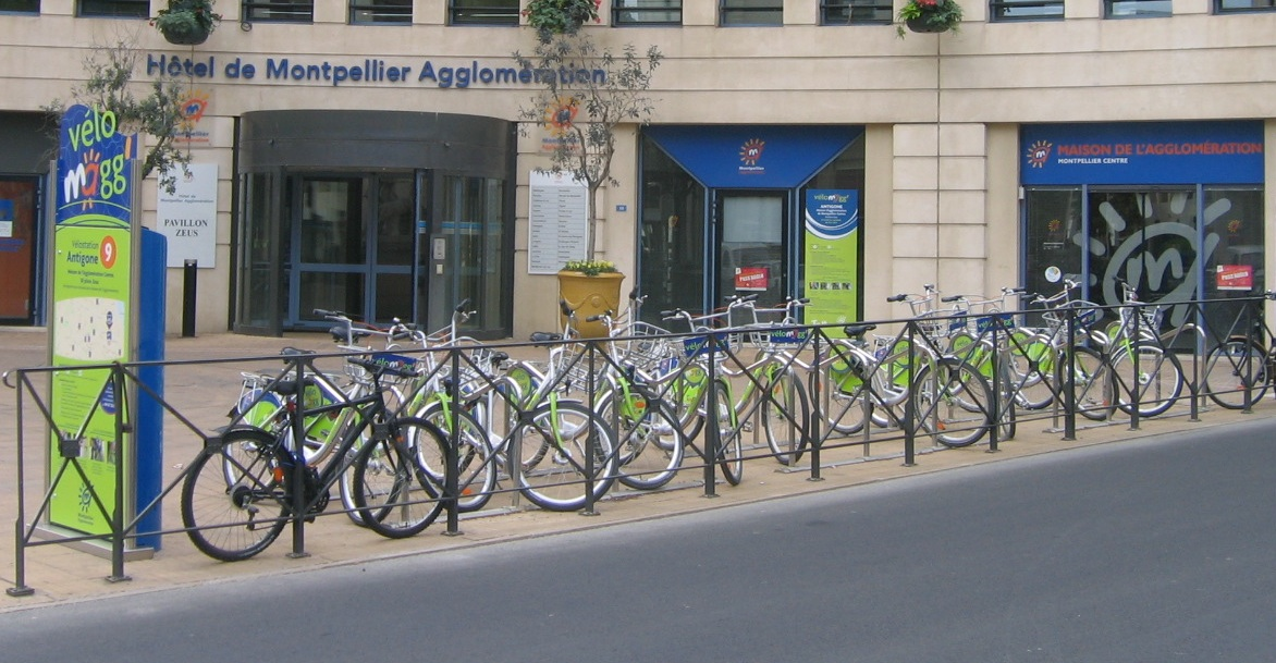 A Vélomagg' bike station. Left, the key dispenser pillar.